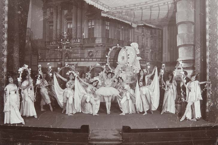 Snapshot of the revue "Bruxelles sans gêne" (Théâtre de l'Alcazar, Brussels, 1894)